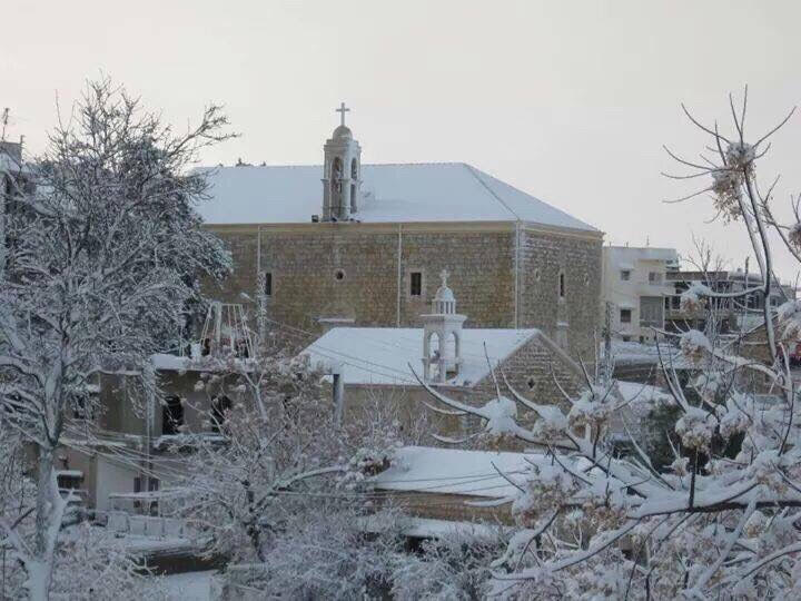 Image of Ain Ebel in Winter